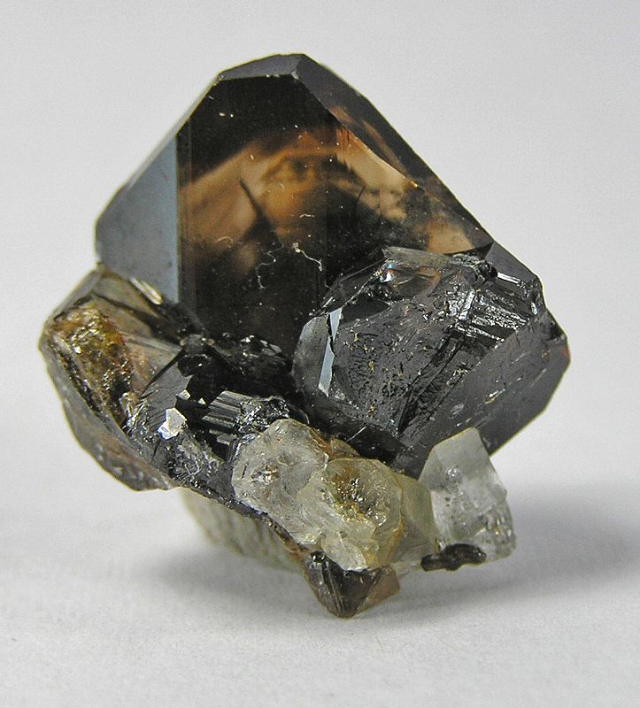 Cassiterite Locality: Amo Sn deposit, Ximeng County, Pu'er Prefecture, Yunnan Province, China (Locality at ) Size: thumbnail, 2 x 2 x 0.7 cm GEM Cassiterite a killer thumbnail If you are a thumbnail collector or collector of Chinese minerals, you will not find a better example of a Chinese gem cassiterite crystal than this one. In fact, it was the top piece of an entire lot we purchased last year. These are of course not to be confused with the far more common opaque black cassiterites from Pingwu. Here you have a deep coffee/smoky-colored crystal that was trimmed out on just the merest bit of matrix, somehow with no damage to the crystal, which is complete and displayable from all sides. It is a true "jewel" for a discriminating collector. SO MUCH BETTER, even, in person! This has to be one of the best cassiterite thumbs out there. Certtainly that I have seen.